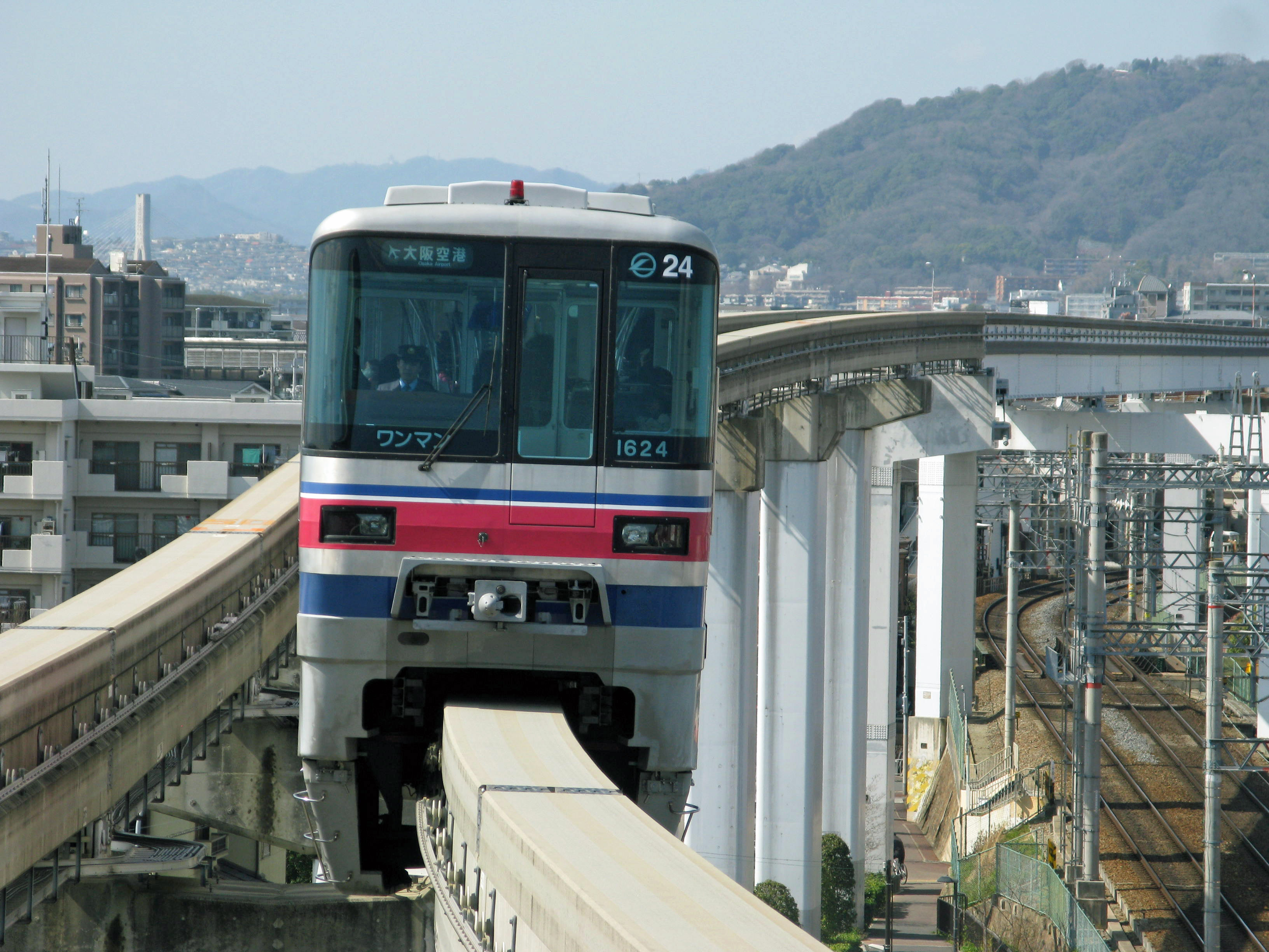 Osaka Monorail 1624 at Hotarugaike Station